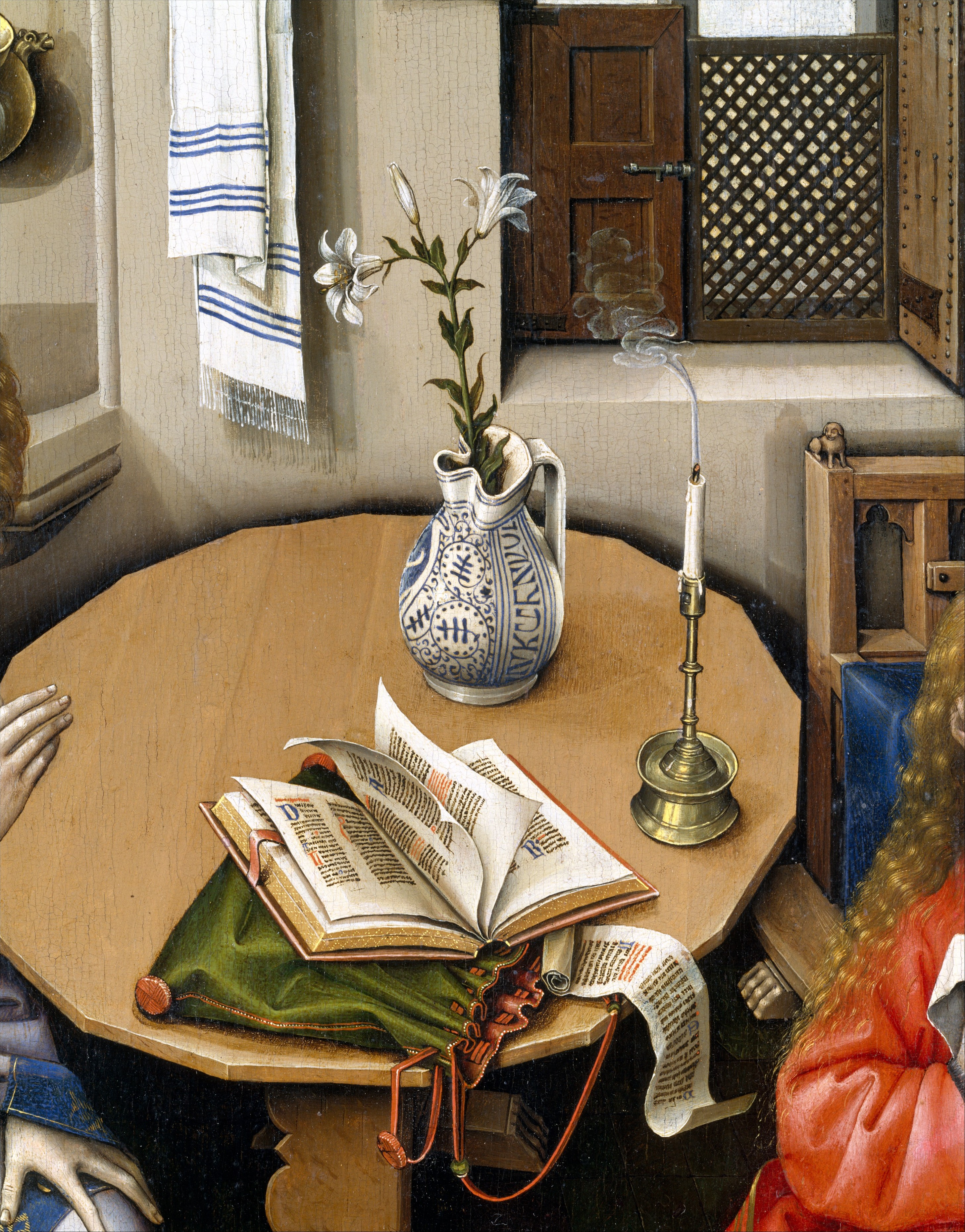 South Netherlandish; Altarpiece; Paintings-Panels